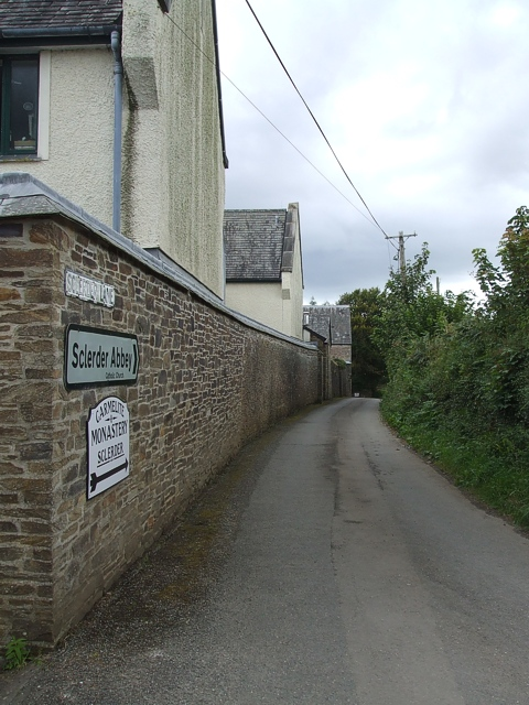 Sclerder Lane Taken from the crossroads looking west along Sclerder Lane. As the signs on the wall indicate, this lane leads to the Carmelite Monastery of Sclerder Abbey.